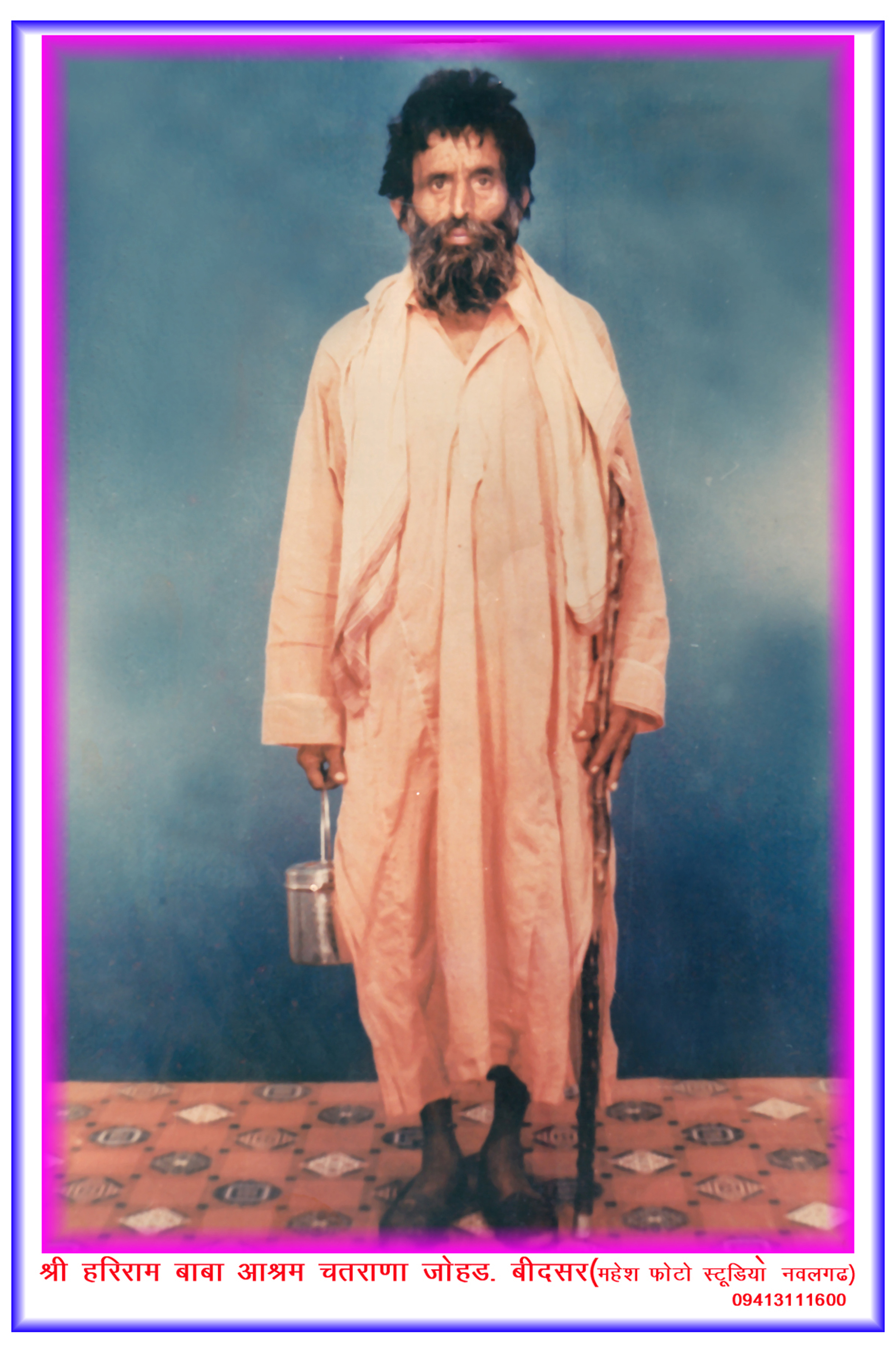 Photo of Saint Shri Hari Baba